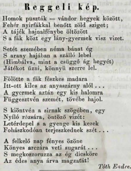 Poem of Tóth Endre